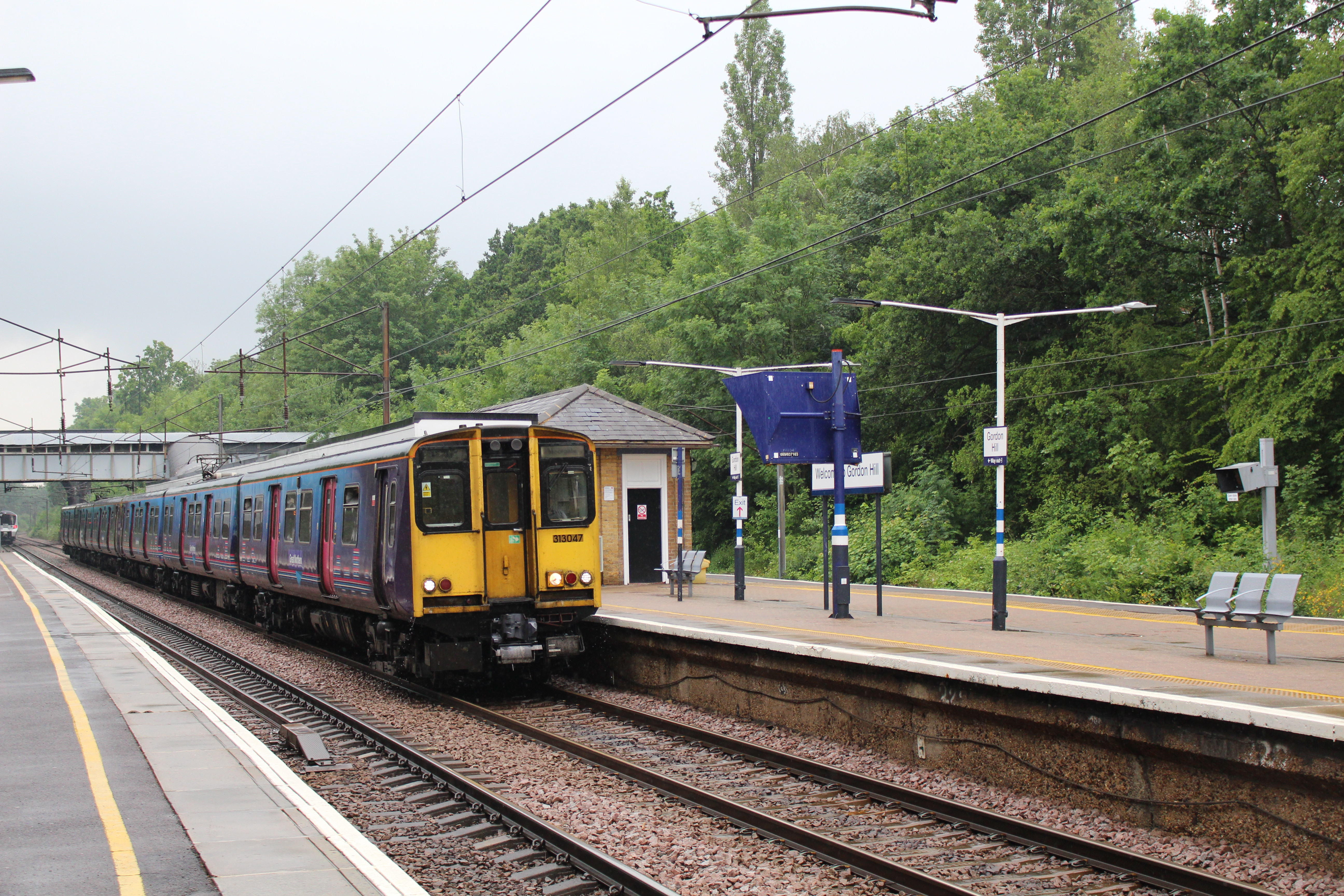 A train.